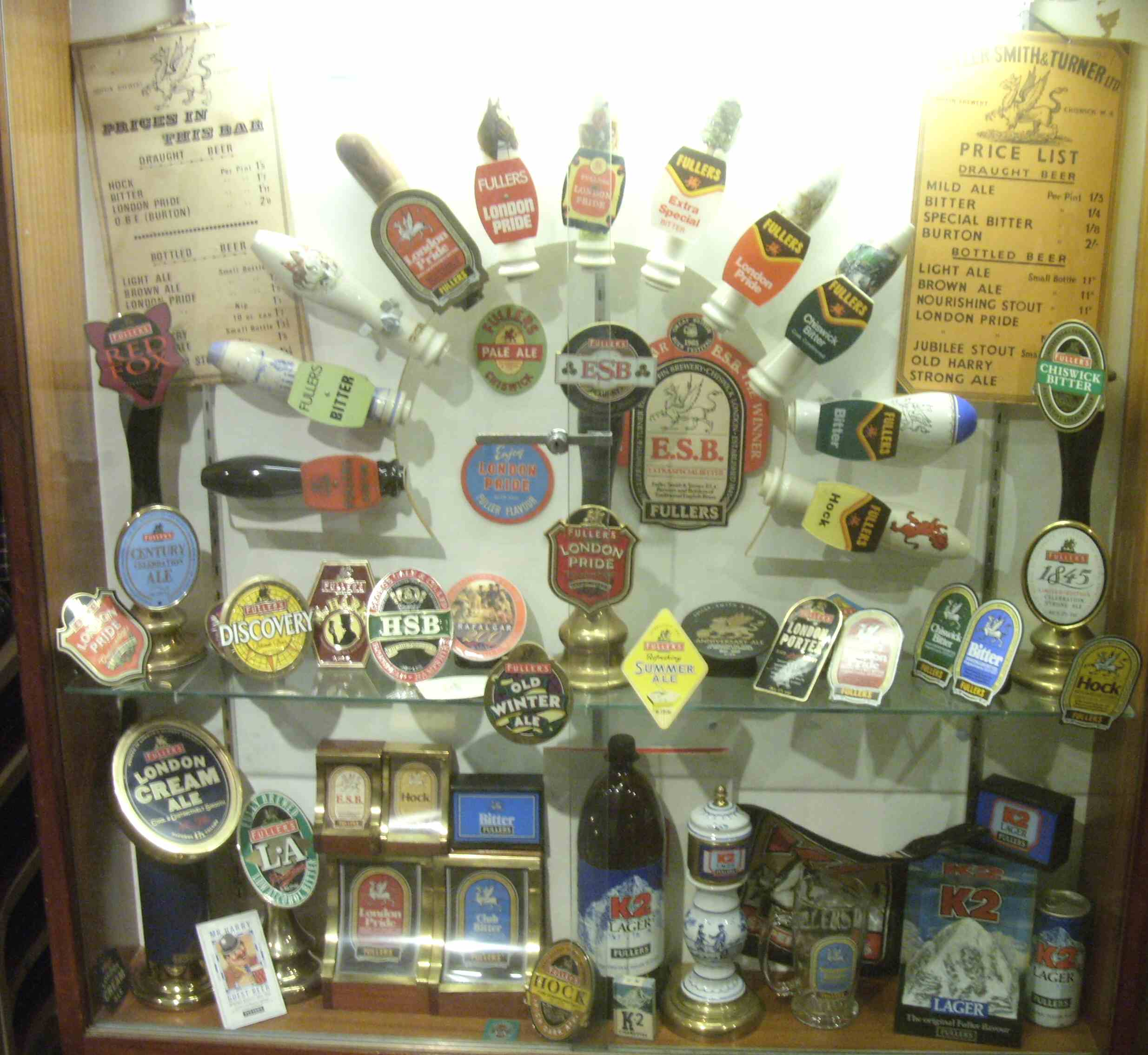 Fullers brands over the years - display in the museum at Grffin Brewery